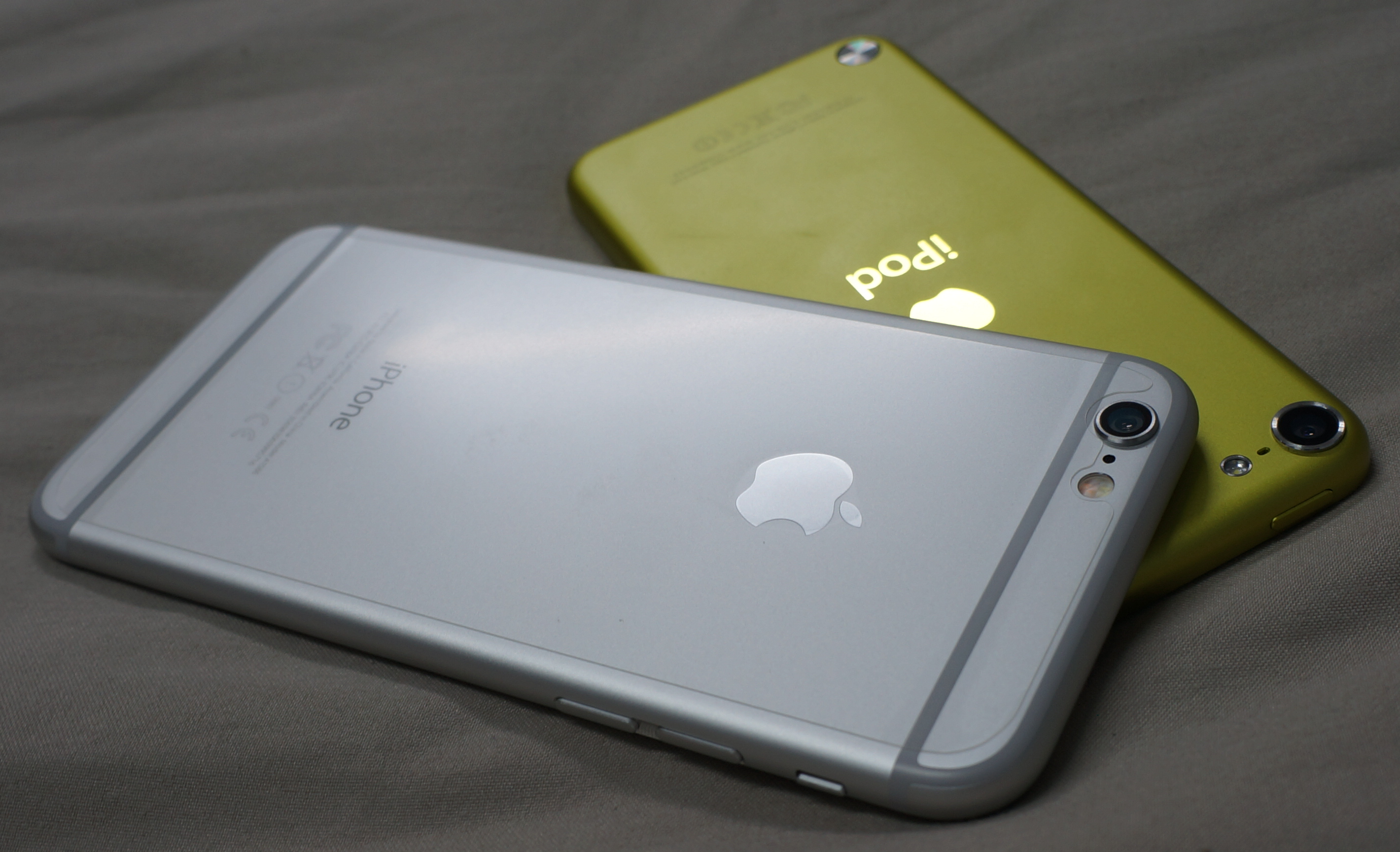 iPod touch 5th gen next to iPhone 6